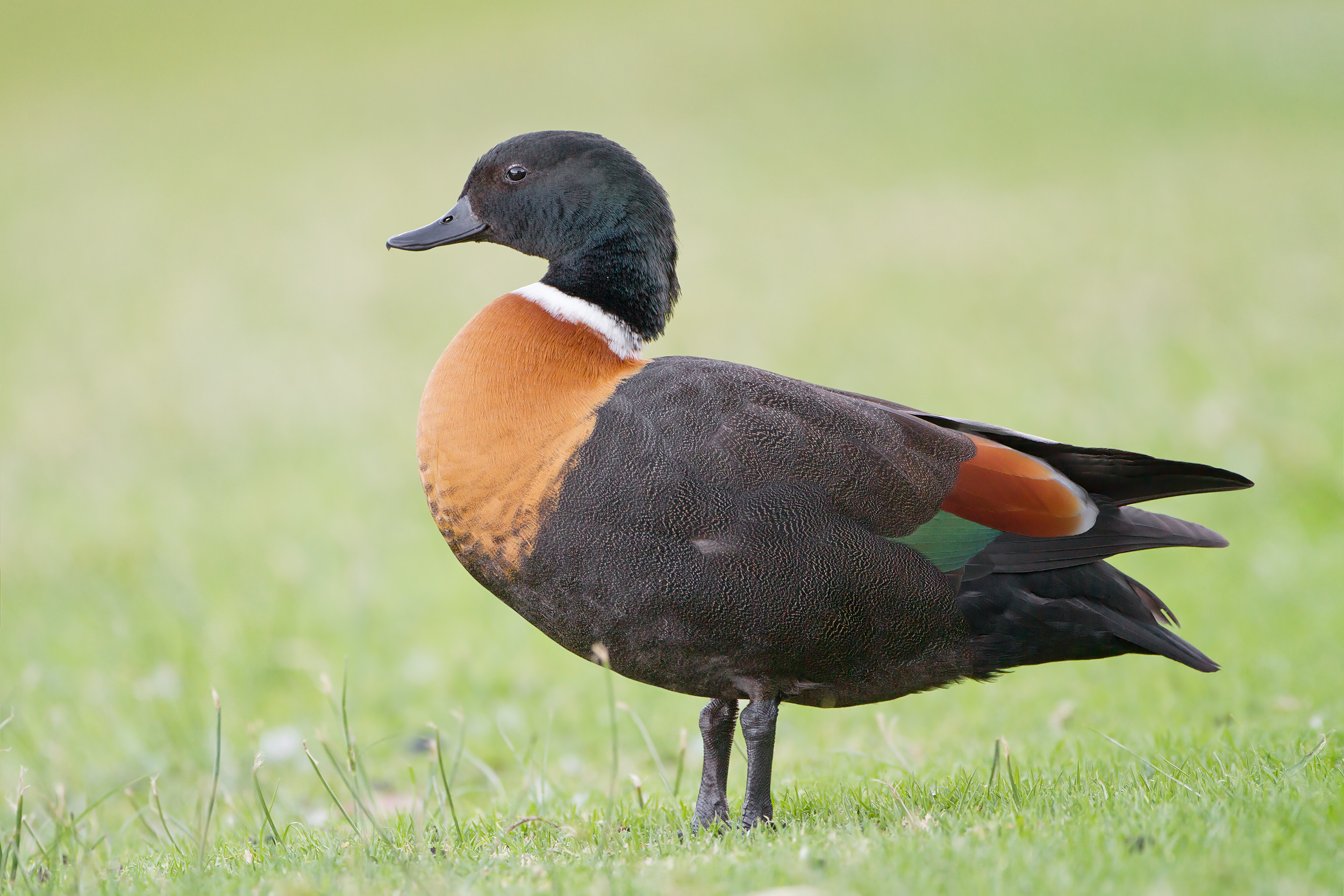 Australian Shelduck (Tadorna tadornoides) male, Perth, Western Australia, Australia